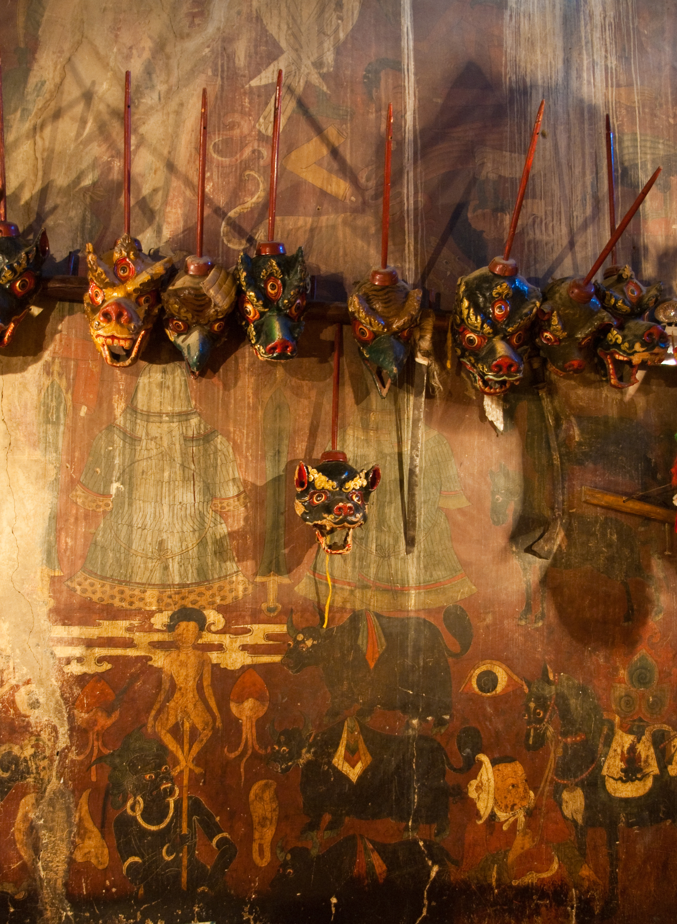 Monastery of Gyantse